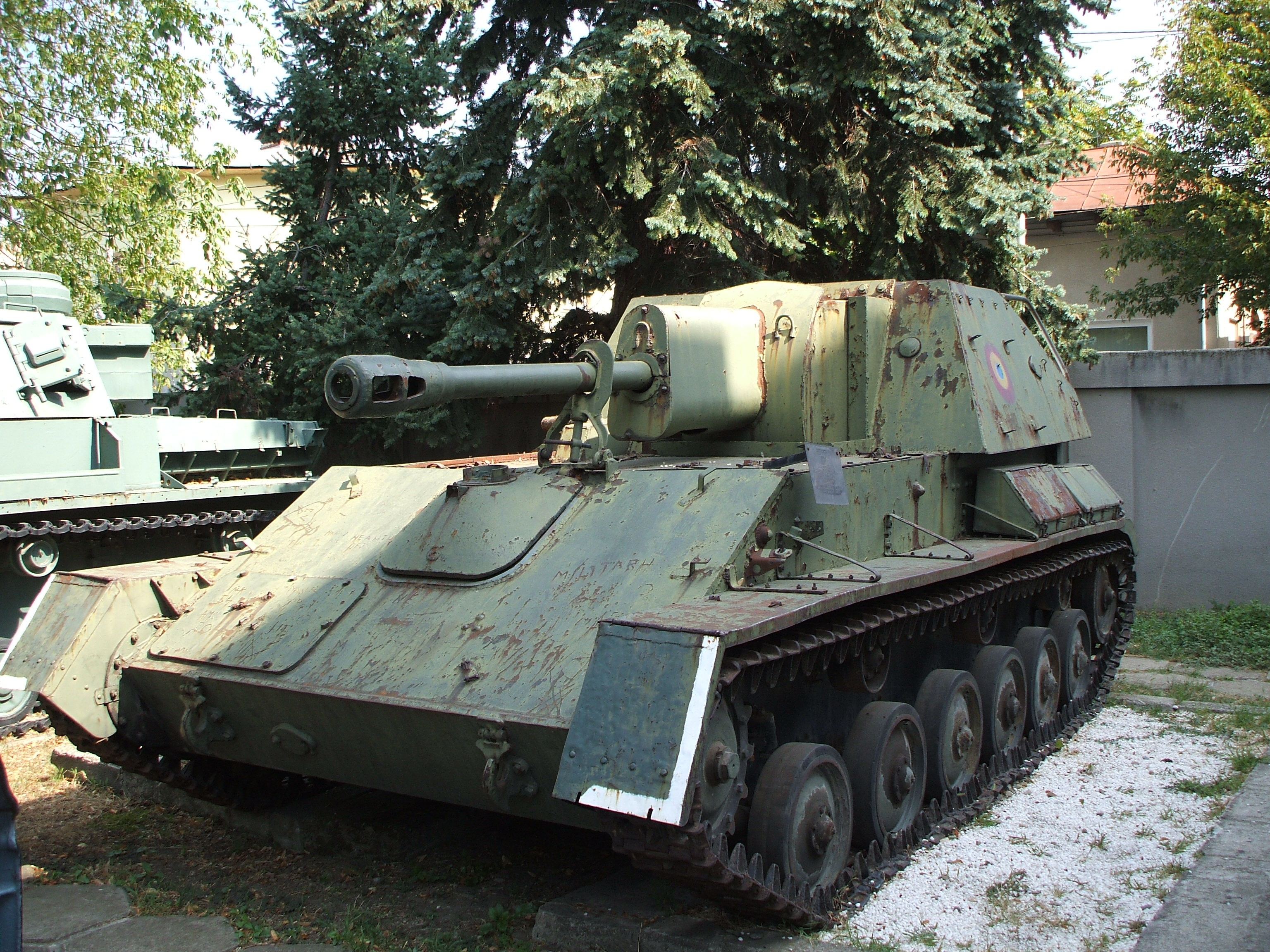 A SU-76 on display at "King Ferdinand" National Military Museum, Bucharest (Romania).